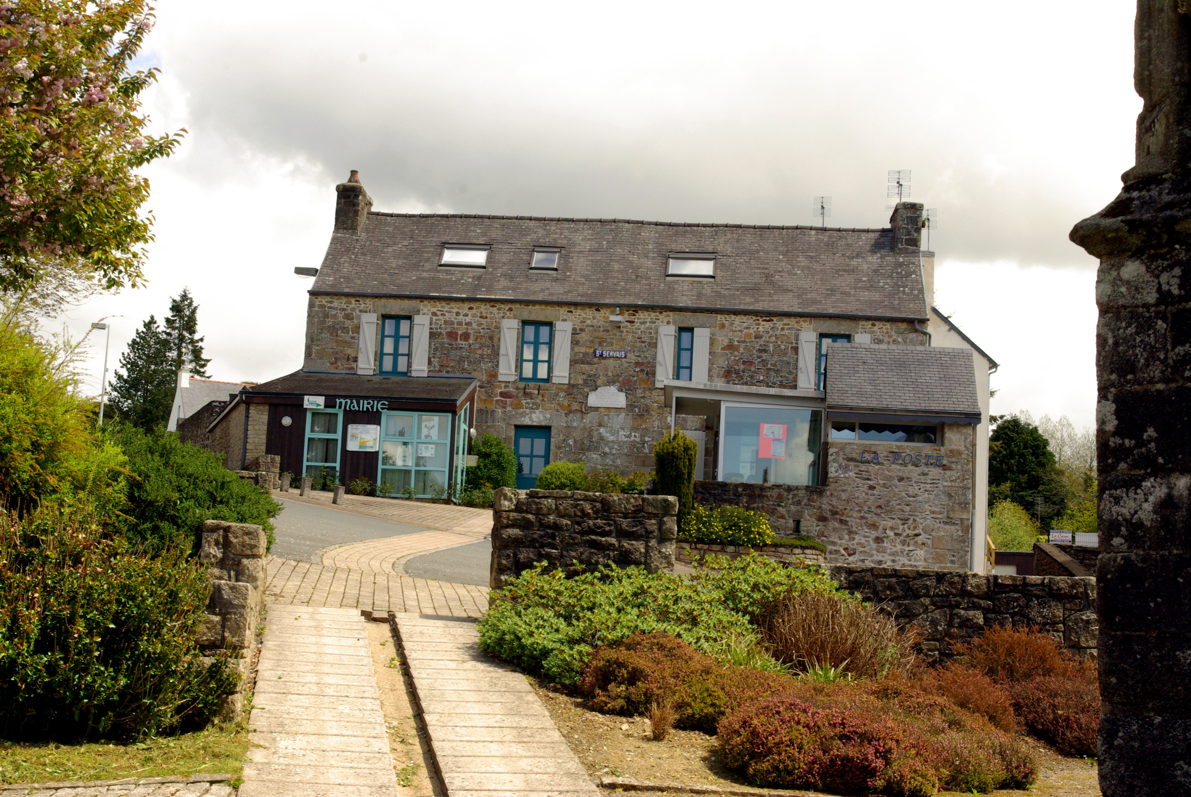 Sant-Servaes Ti Ker